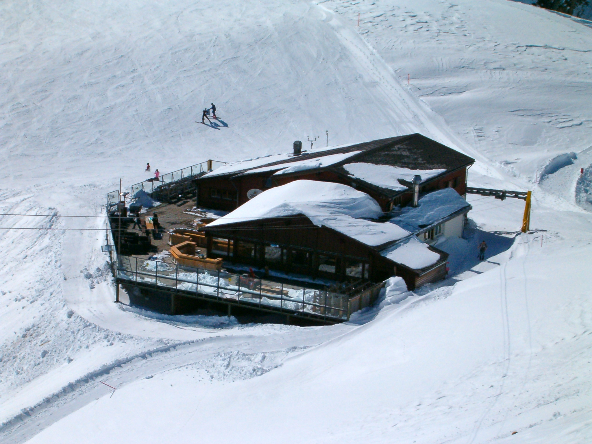 Sattelhuette at Arosa/Switzerland